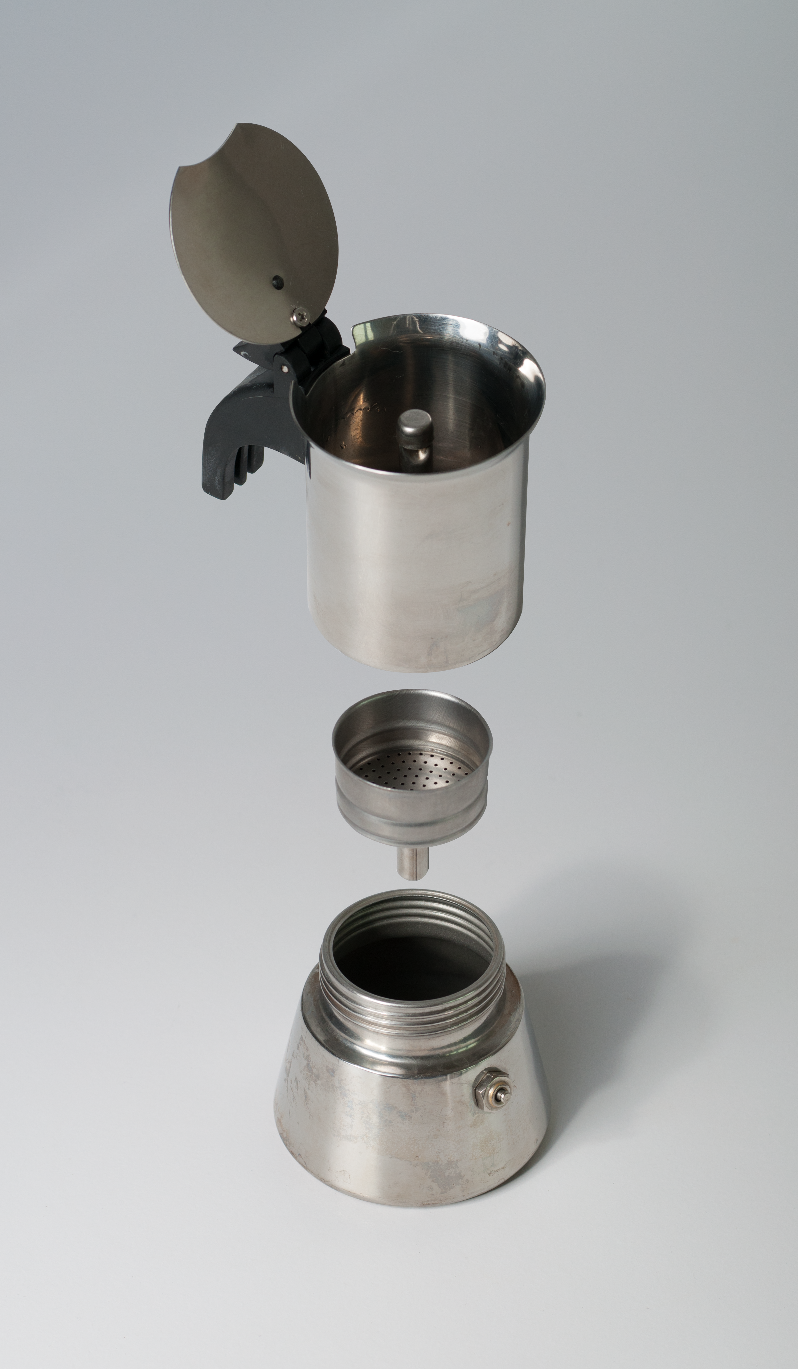 A Bialetti coffee machine dissembled components floating on top of each other.